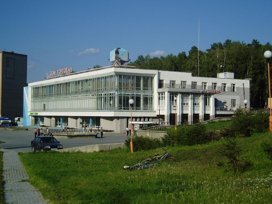 Shopping Mall in the Russian town of Zarechny